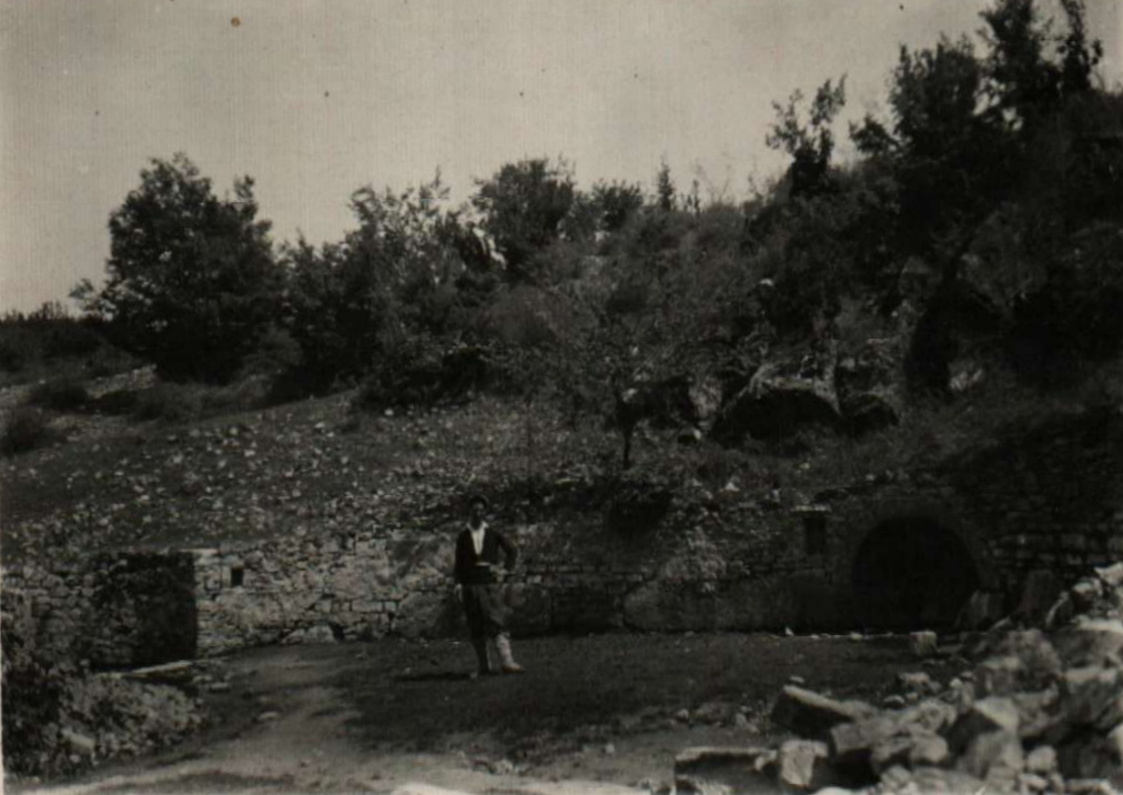 Nymphaeum near Kasnakovo, Bulgaria.